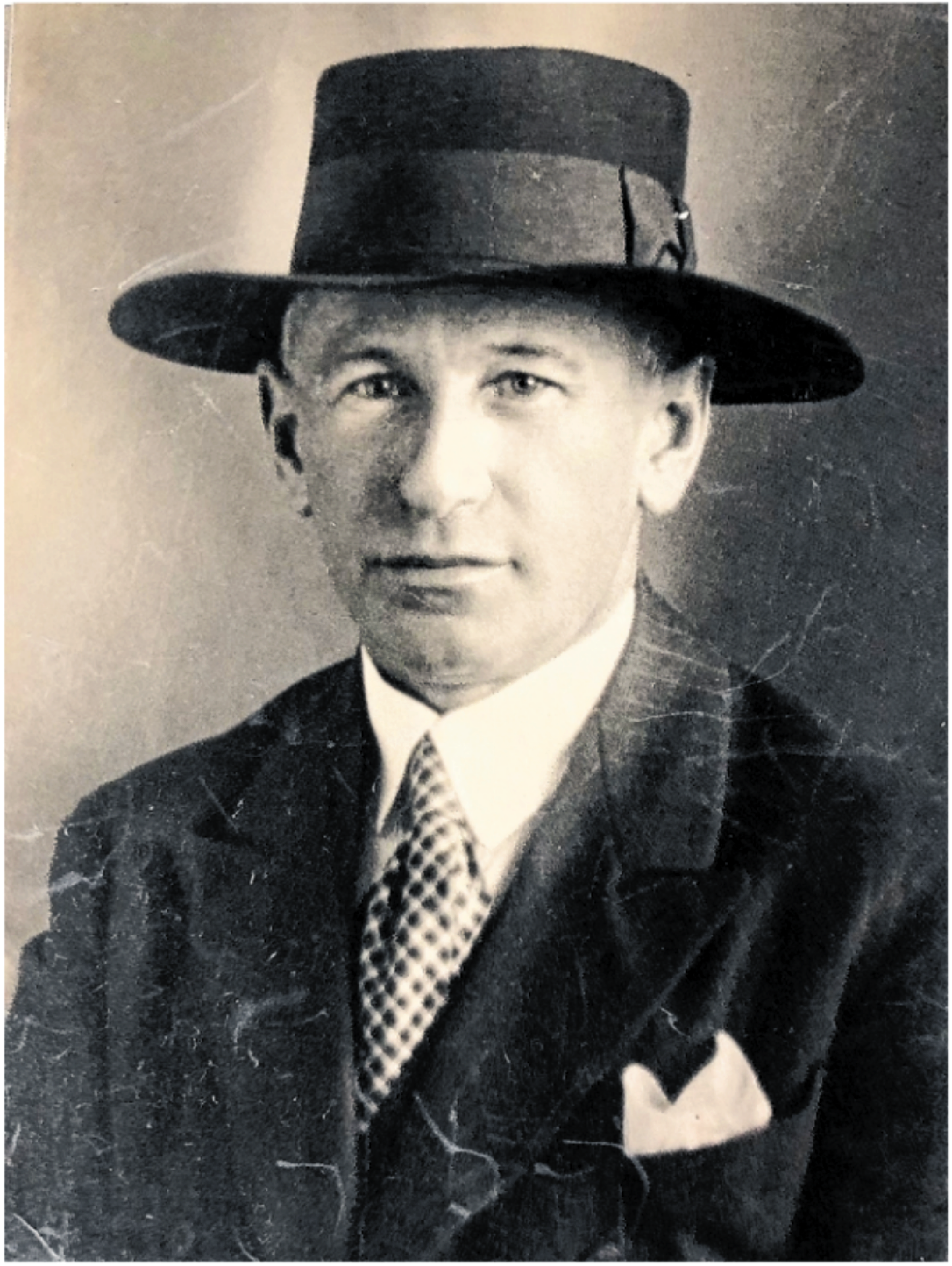 Otto Bamberger (1885–1933) was a German entrepreneur from Lichtenfels in Upper Franconia. Since 1910 he was managing director of the company D. Bamberger Palmkorb- und Möbelklopfer which was founded in Mitwitz by his grandfather David (1811–1890). At his time it was one of the largest European supplier of raw material for the industry of woven baskets and for the furniture manufacturers. A branch of the company in Coburg also distributed kids games, toys, arts and crafts materials and handicraft. After the Nazis came into power he died shortly after an interrogation. His art collection including works by Ernst Barlach, Max Beckmann, Marc Chagall, Lovis Corinth, Otto Dix, Paul Klee, Oskar Kokoschka, Käthe Kollwitz, Alfred Kubin, Wilhelm Lehmbruck, Max Liebermann, Franz Marc, Paula Modersohn und Emil Nolde was characterized as degenerate and was confiscated. In his villa Sonnenhaus which was completely new furnitured in 1928 by Bauhaus designer Erich Dieckmann (1896–1944) frequent literary nights were joined by writers and graphic artists like Alfred Kubin (1877–1959) and by painters like Reinhold Nägele (1884–1972).